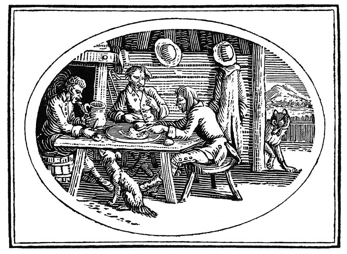 A woodcut by Thomas Bewick illustrating the fable of "The Wolf and the Shepherds" from Select Fables of Aesop (1784)